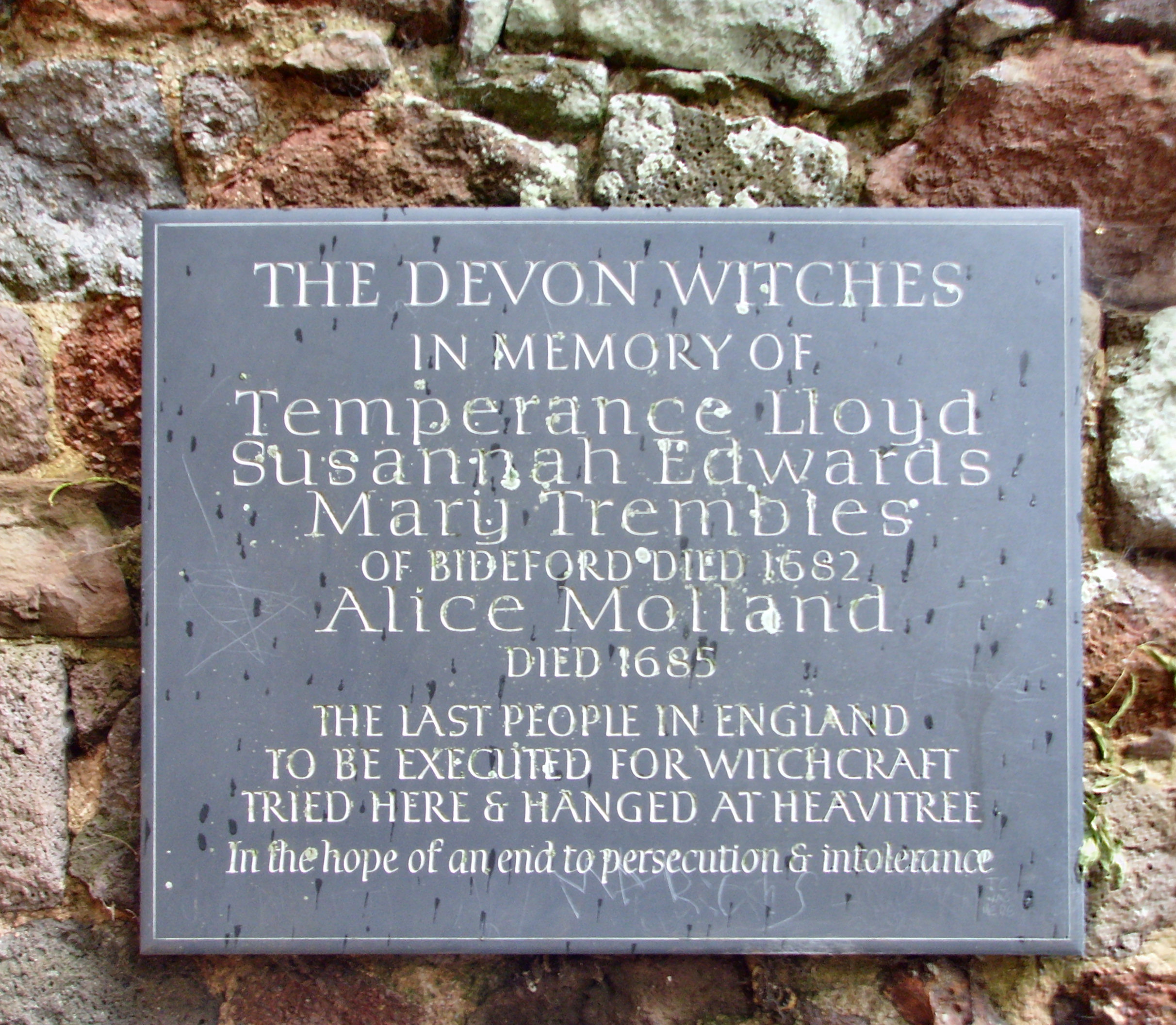 A plaque commemorating the last executions for witchcraft in England, Bideford, Devon, United Kingdom.